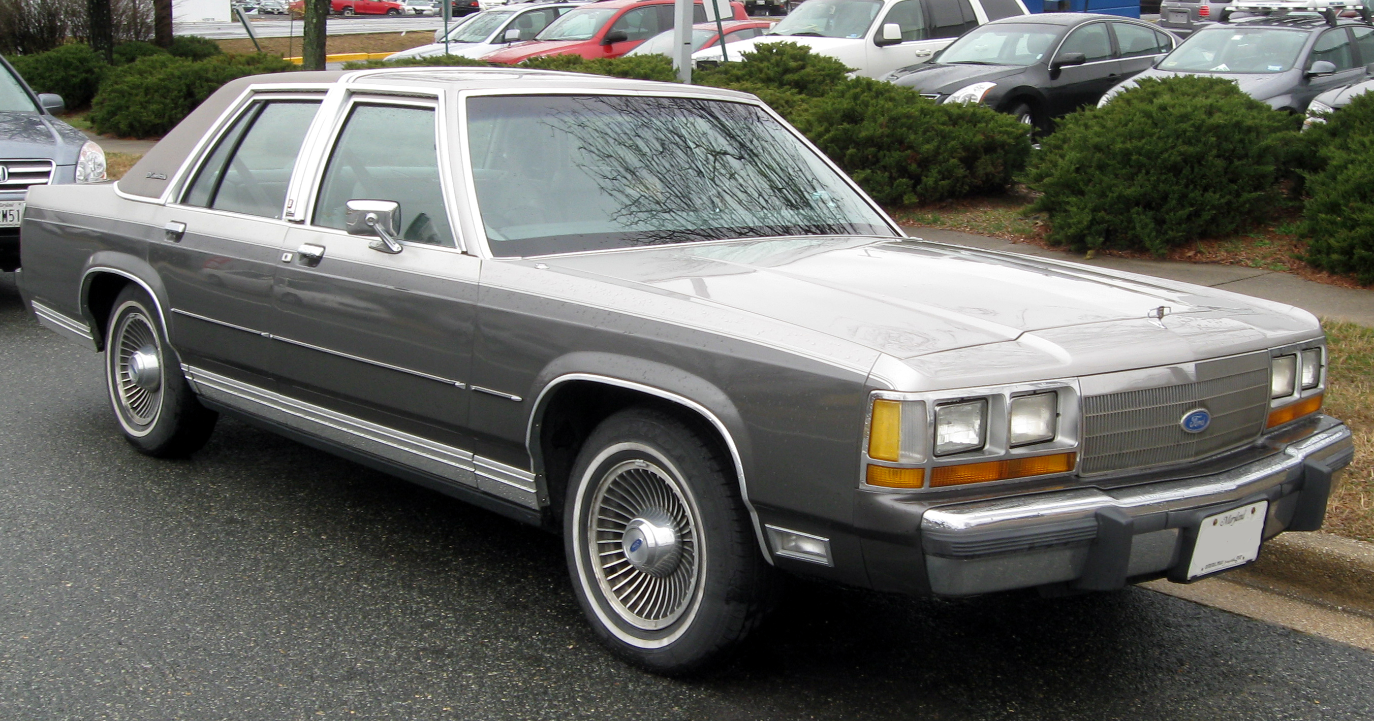 1988-1991 Ford LTD Crown Victoria photographed in Silver Spring, Maryland, USA.